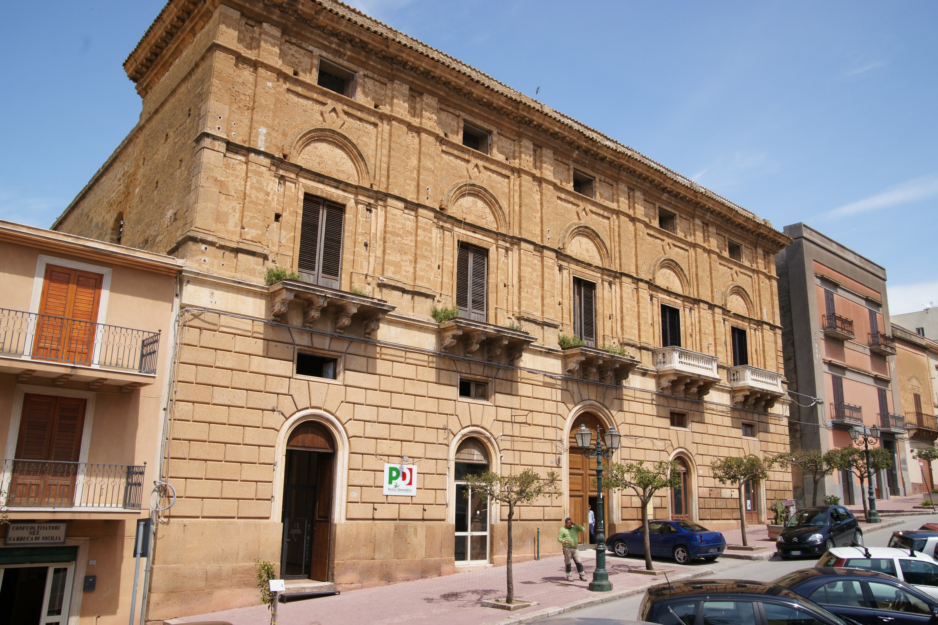 Sambuca de Sicilia: Palazzo Chiacco